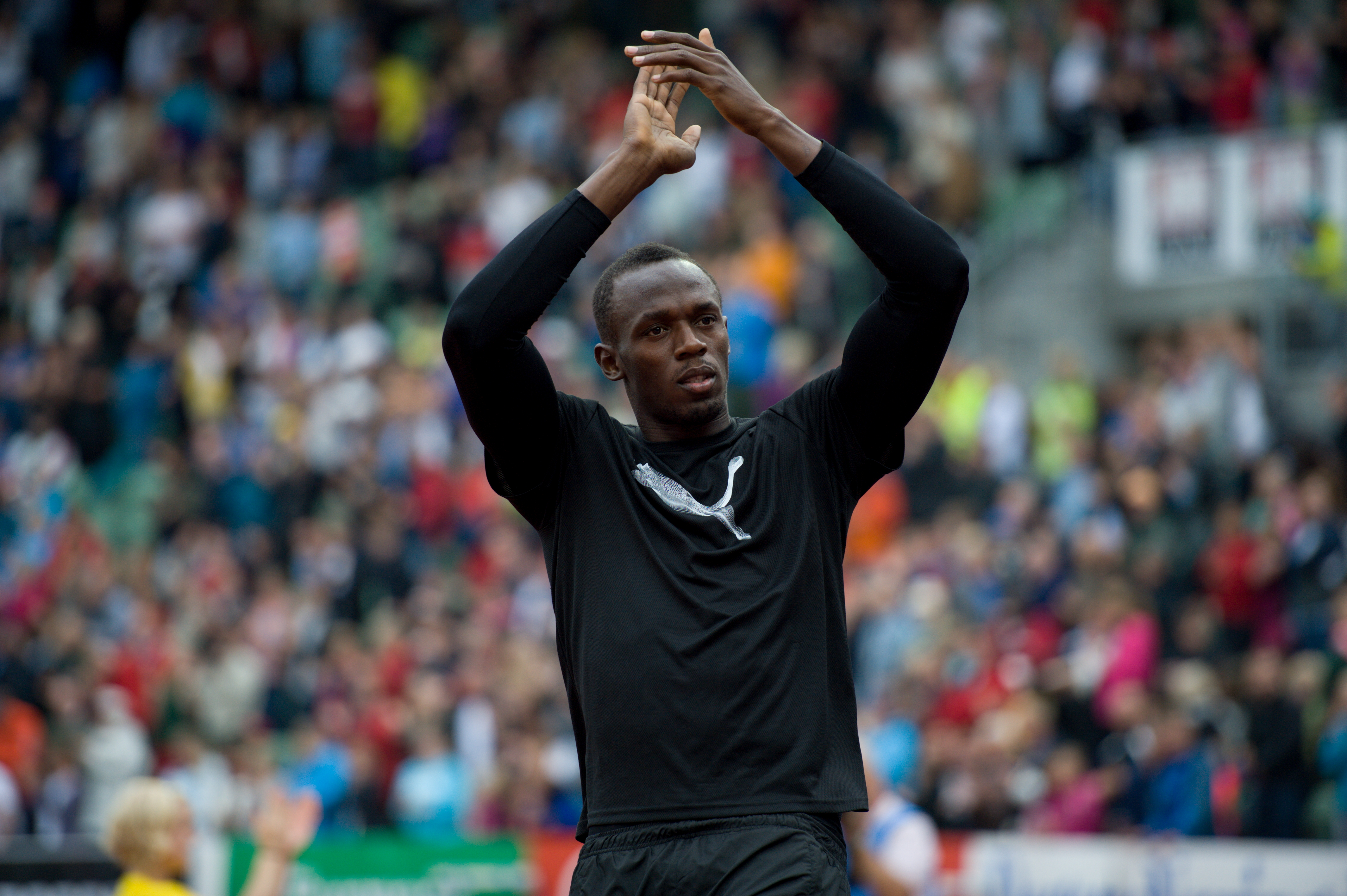 Usain Bolt entering the Bislet Stadium during Bislet Games 2011